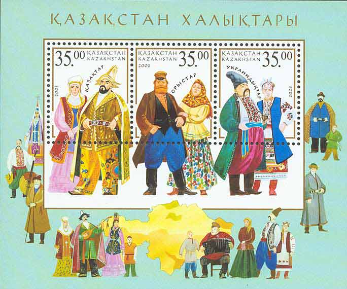 Stamp of Kazakhstan